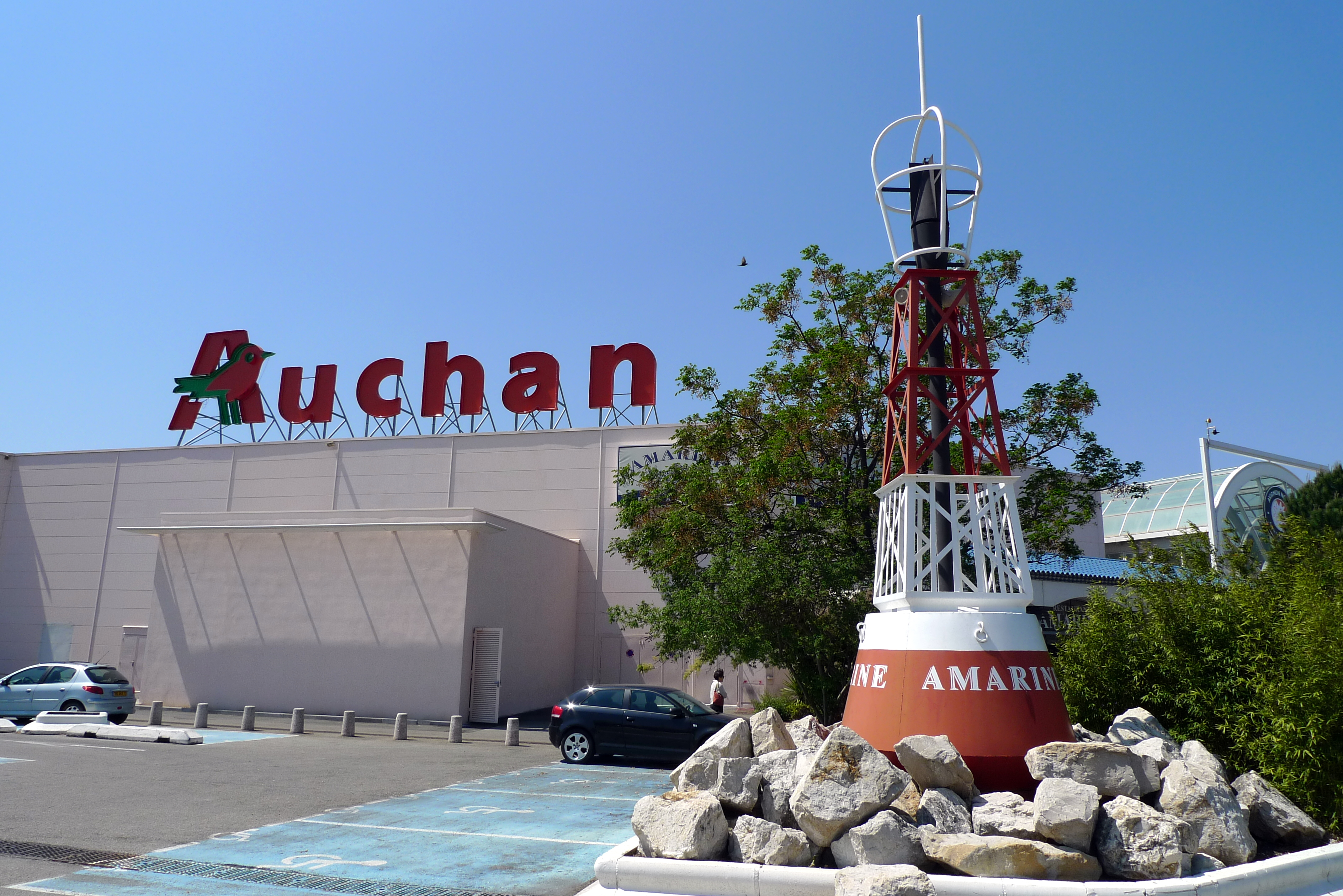 Auchan, Le Pontet, Vaucluse, France